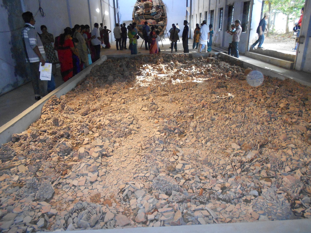 People watching an illustration named Black Gold done by Vivan for Kochi-Musris Binale